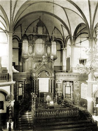 Great synagogue in Danzig, Germany (now Gdansk, Poland), destroyed by the Nazis in 1939